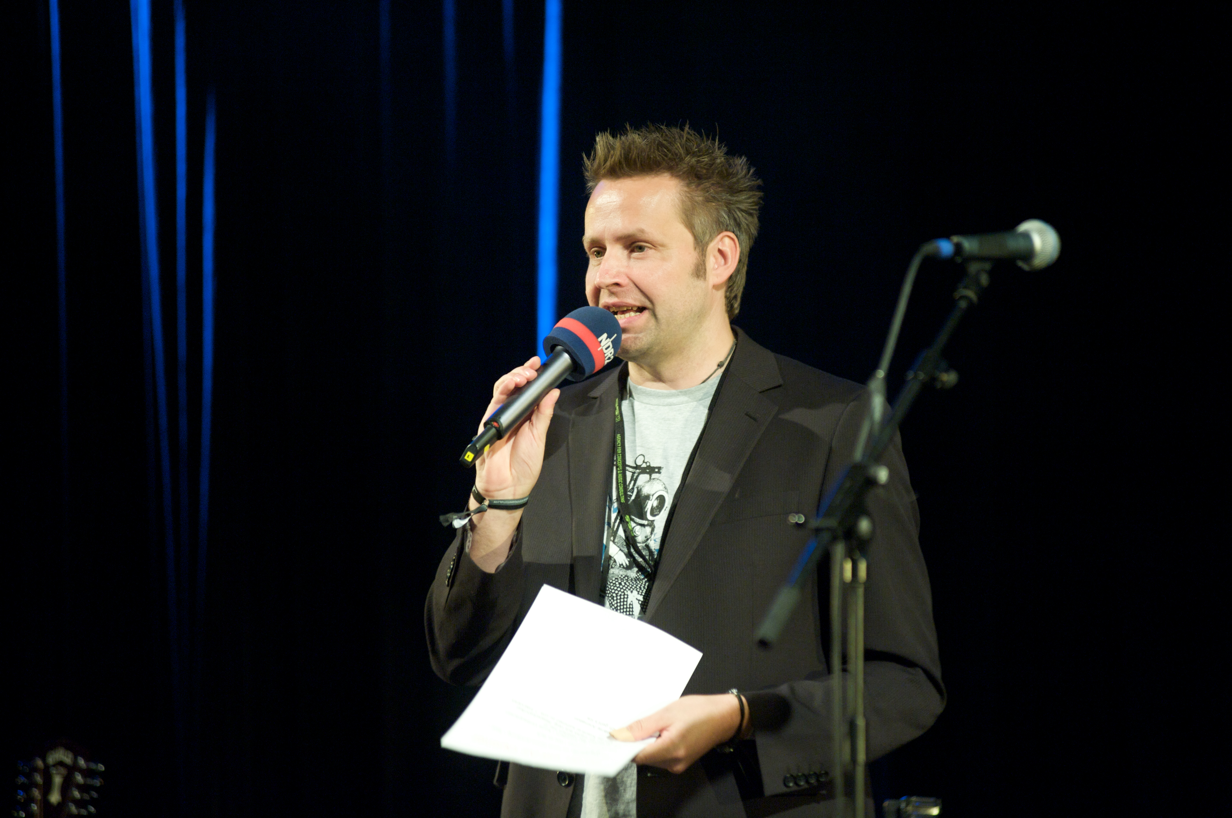 Radio presenter Stefan Westphal during Reeperbahn Festival 2011